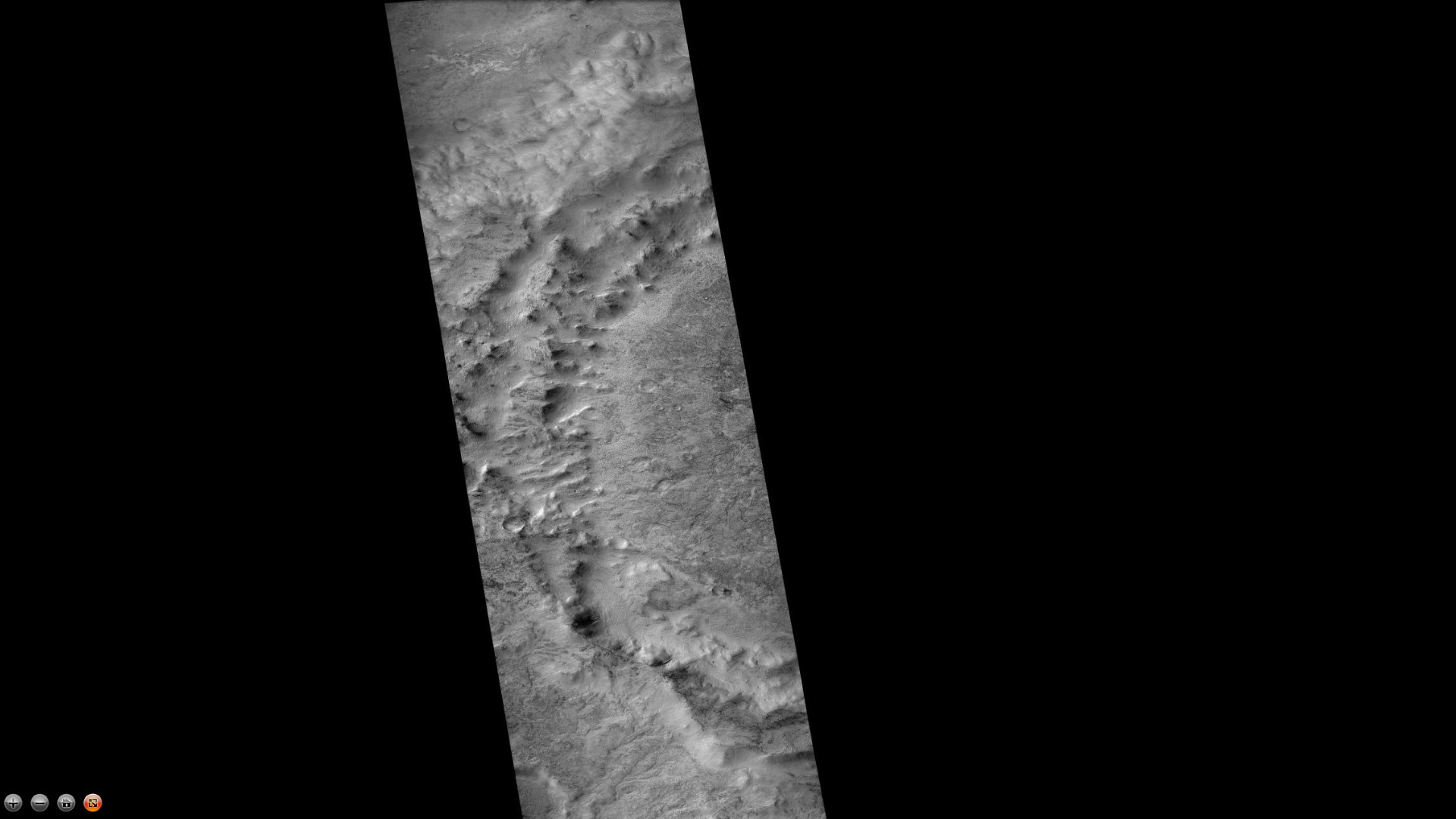 West side of Rossby Crater, as seen by cts